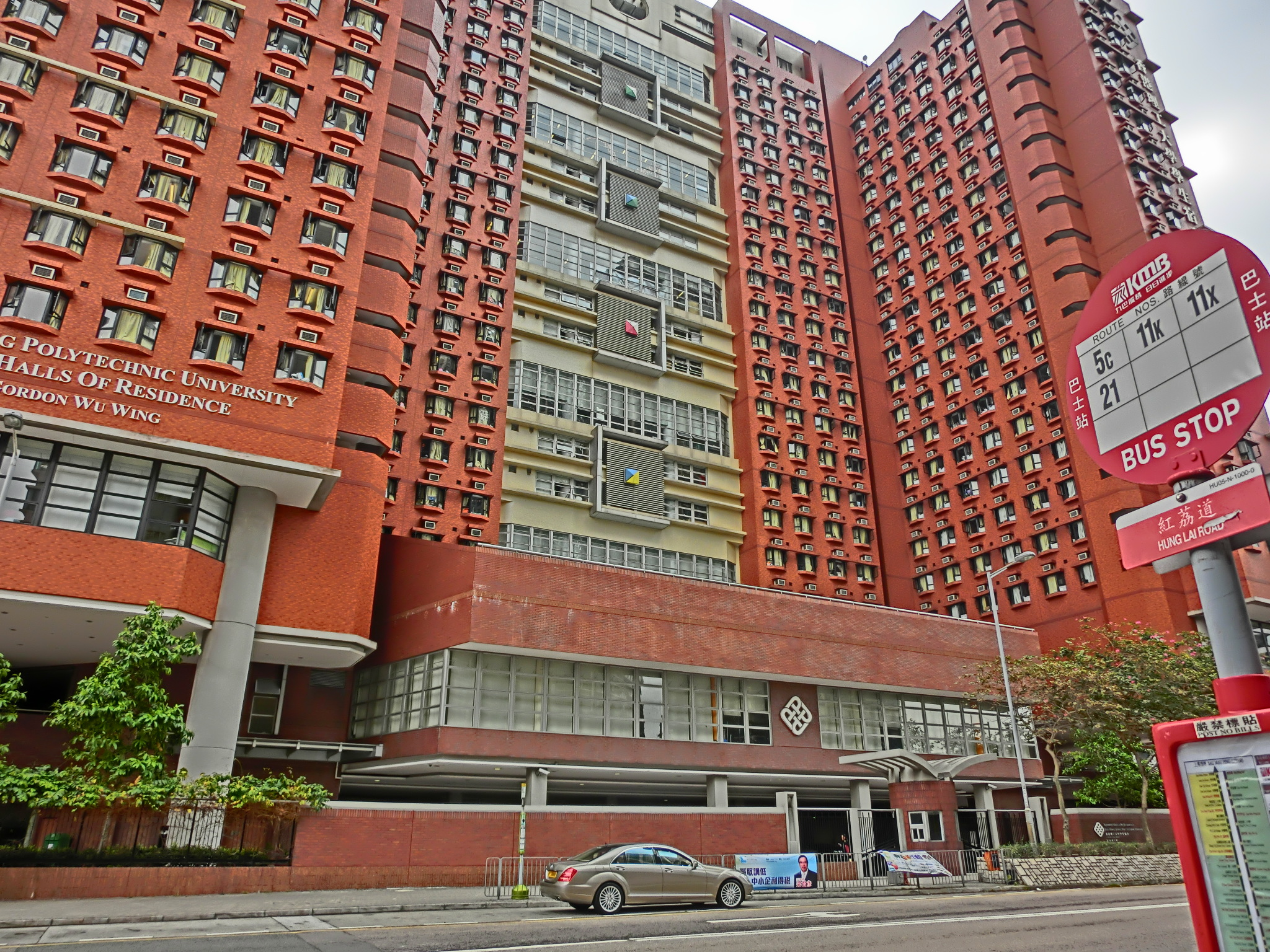 紅磡, Hung Hom, Hong Kong